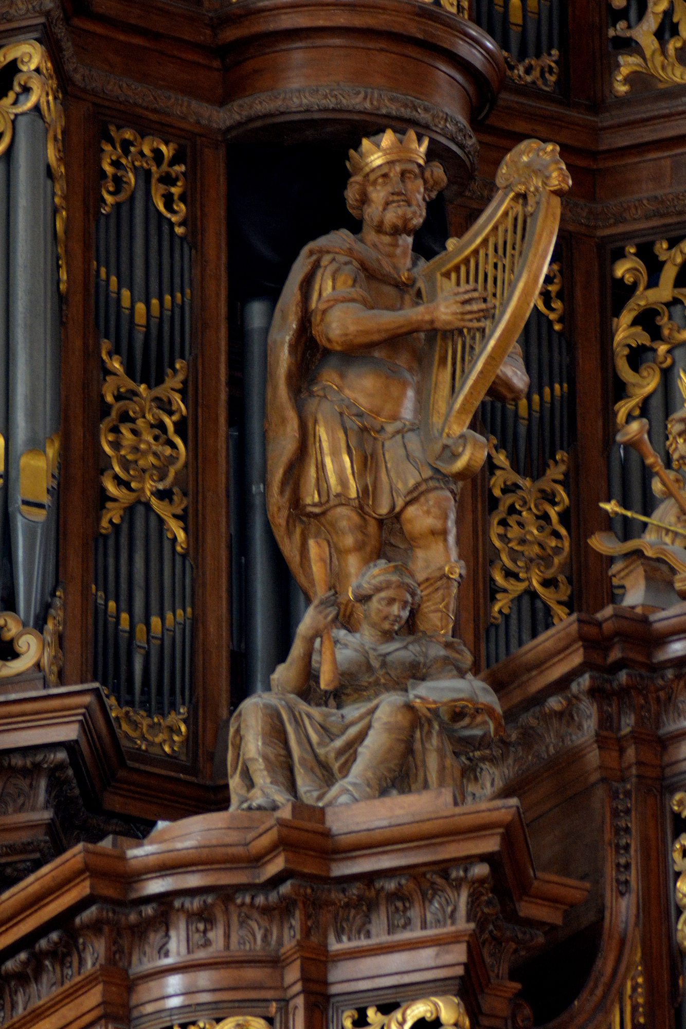 Zwolle, Grote Kerk, beeld koning David